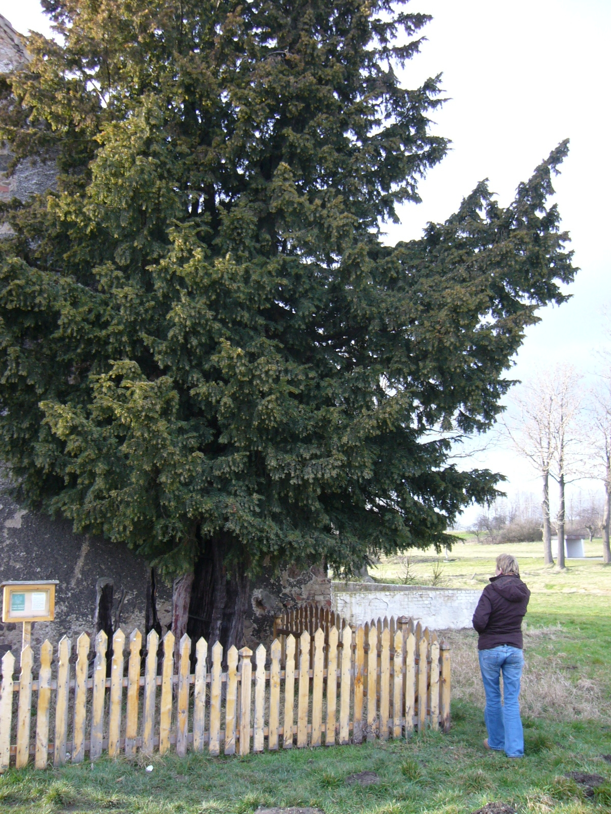 The oldest Taxus baccata in Poland and maybe in Central-East Europe is located in Henryków Lubański.